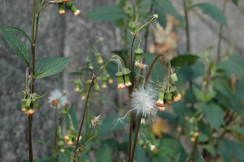 Photograph of Crassocephalum crepidioides, taken in Machida city, Tokyo, Japan.